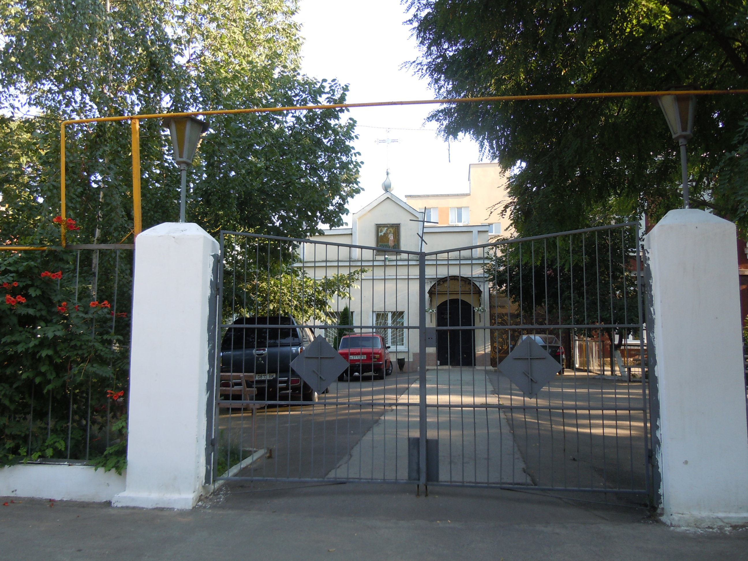 Axion Estin church in Odessa, Oleksiivska Square 19